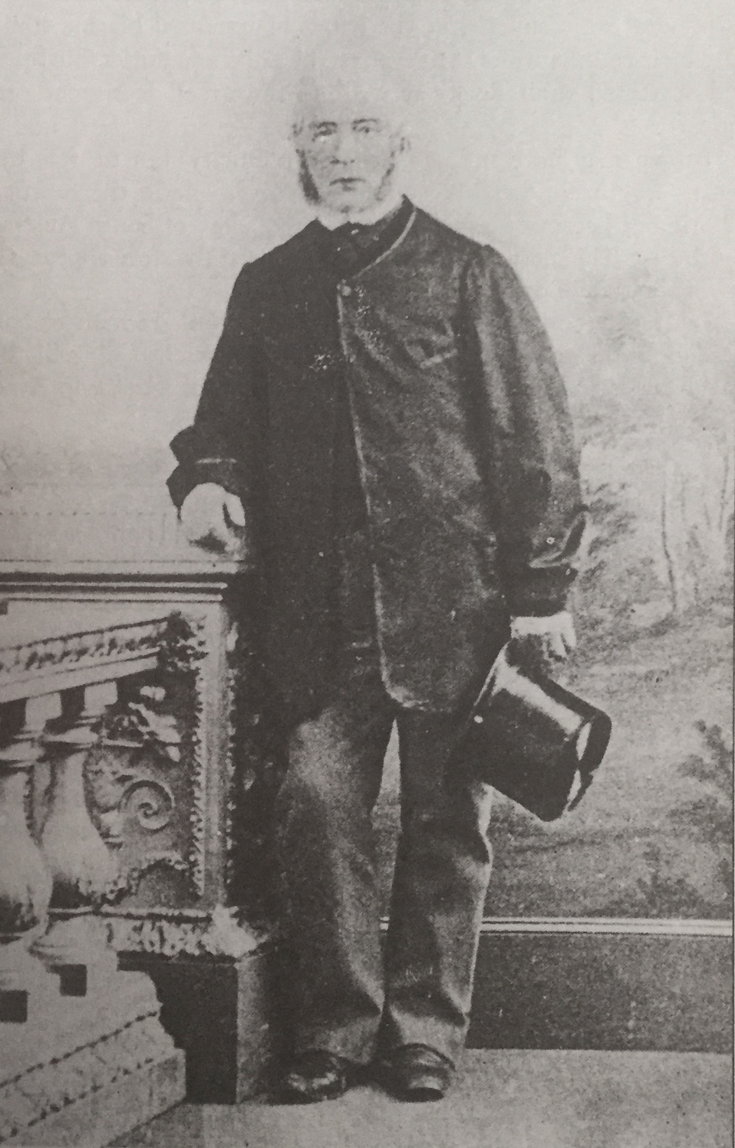 A portrait of James Brown, South Australian pastoralist